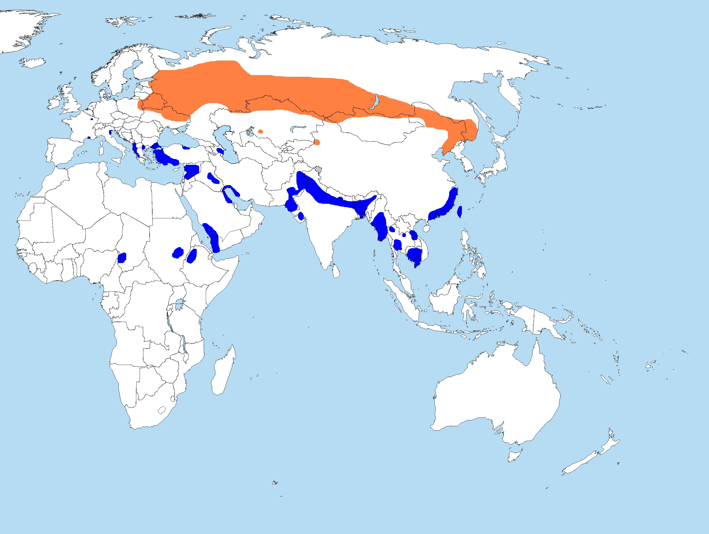 Area of Aquila clanga. orange = summer, blue = winter. Self-made, based on T. Mebs und D. Schmidt: Die Greifvögel Europas, Nordafrikas und Vorderasiens. Franckh-Kosmos, Stuttgart, 2006. ISBN 3-440-09585-1 and J. Ferguson-Lees, D. A. Christie: Raptors of the World. Christopher Helm, London 2001. ISBN 0-7136-8026-1